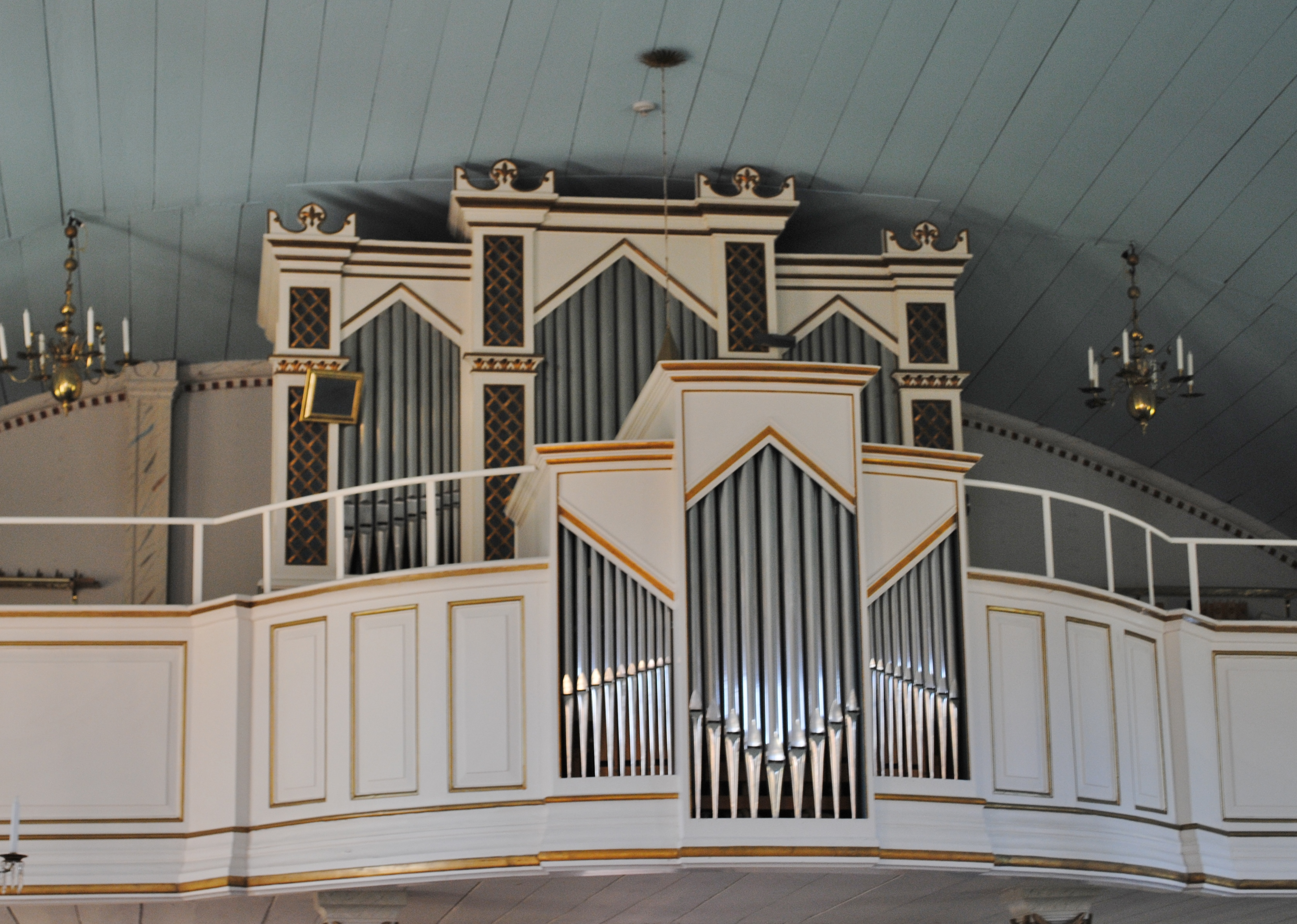 Karlslunda Church.Organs